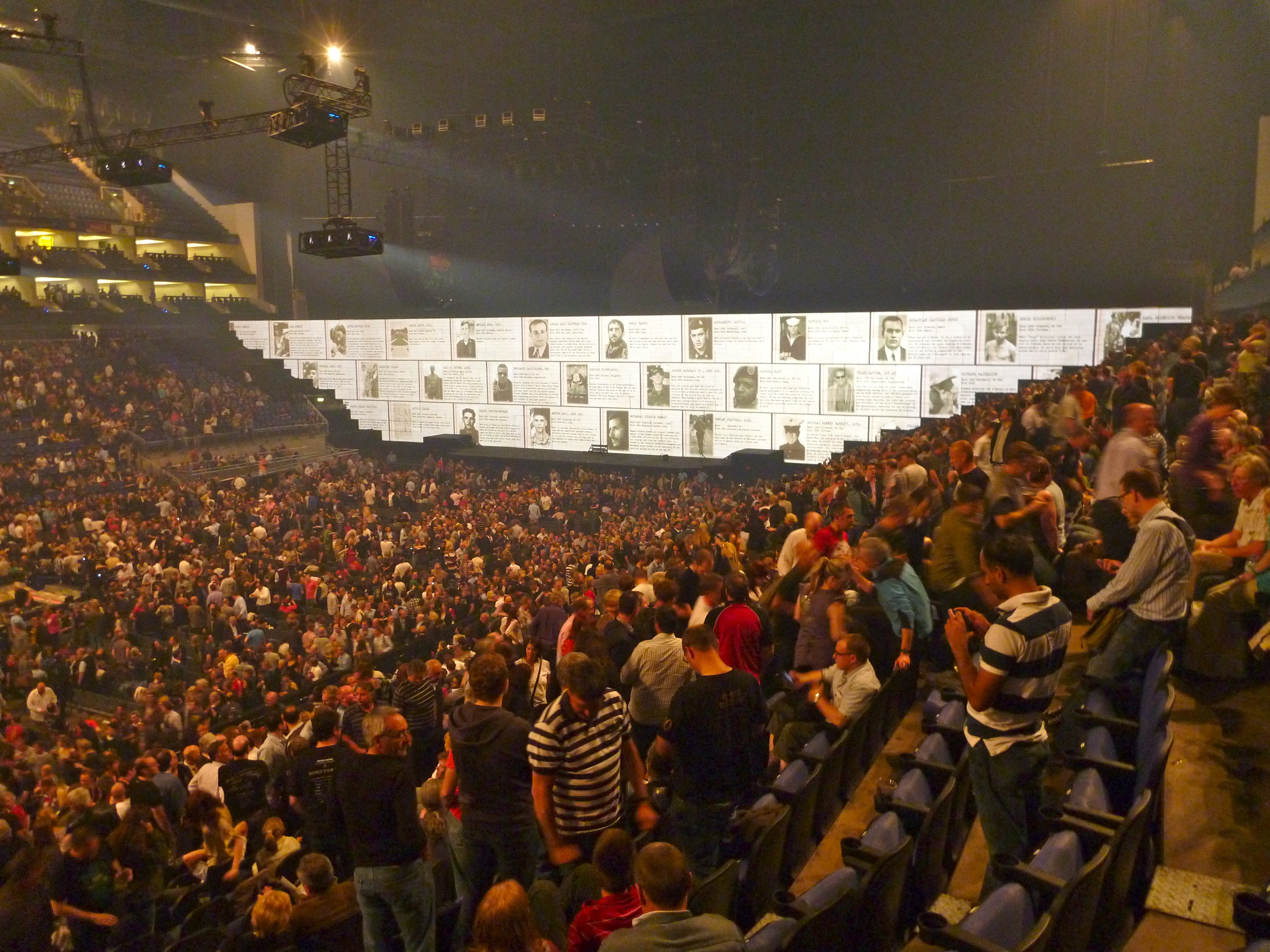 The Wall Live in The O2, London